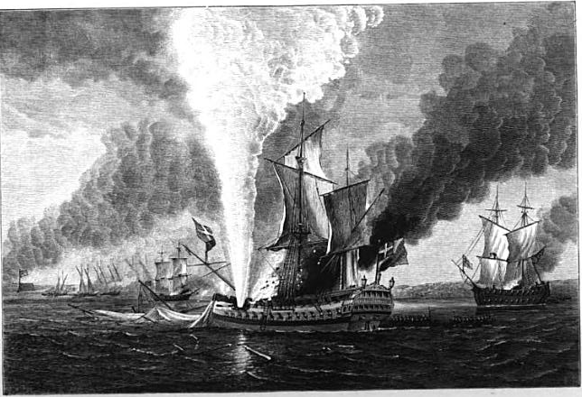 HMS Augusta (1763) and HMS Merlin (1757) aground and on fire, after the attack on fort Mercer, 23 October 1777; engraving, possibly by William Bradford (1719-1791)